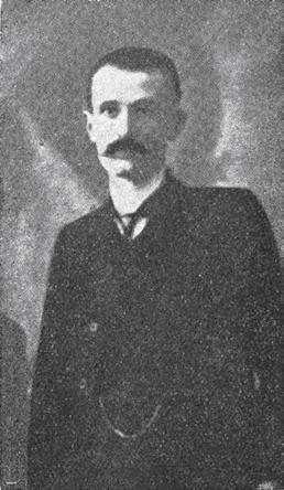 portrait of IMRO Voevoda Atanas Ivanov